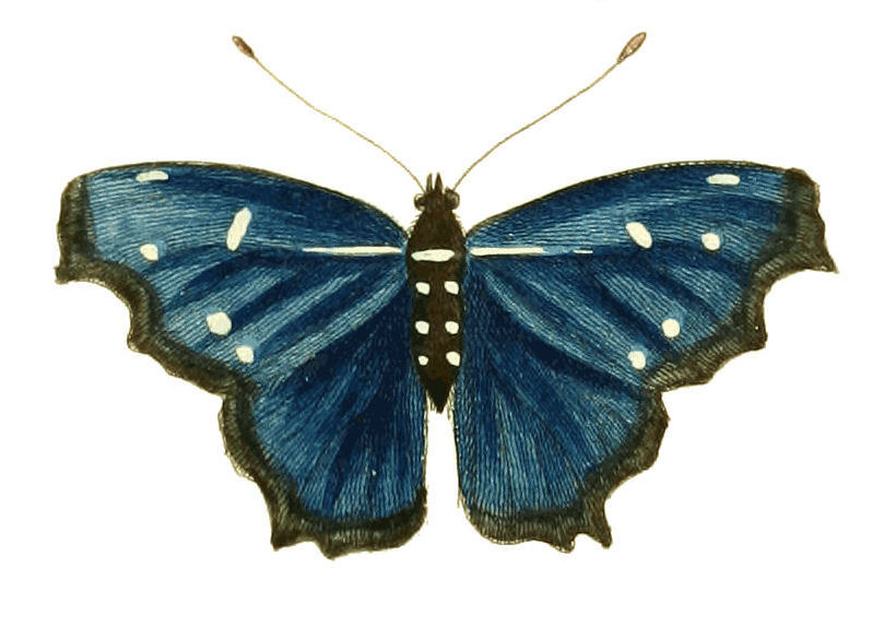 Extract from Plate XVI. NYMPHALIS ORSIS ♂ (= Myscelia orsis).